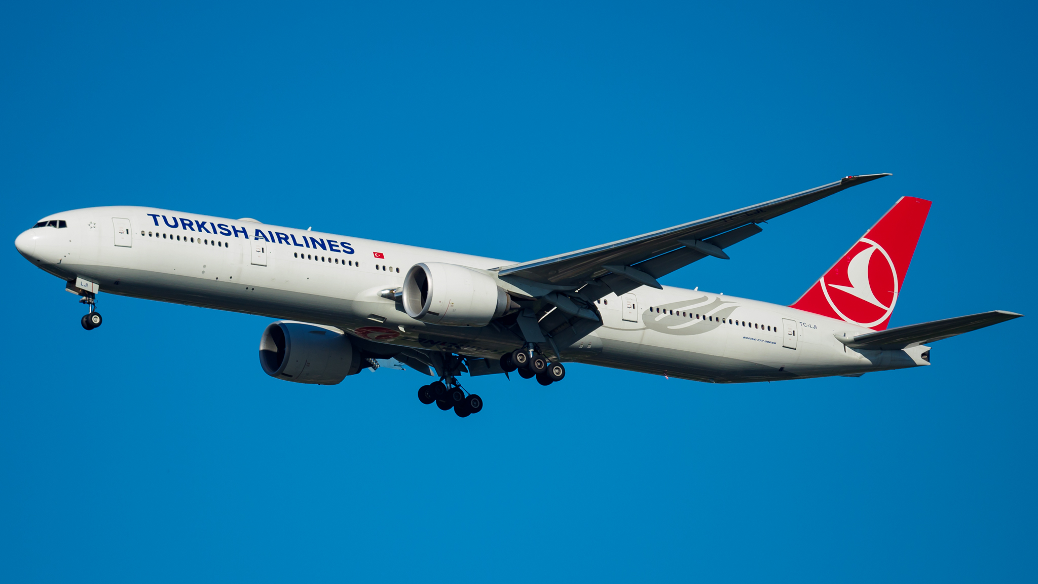 Spotting near JFK